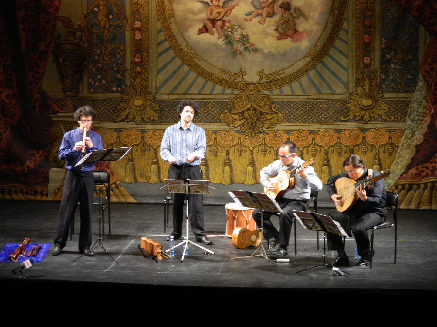 Concert